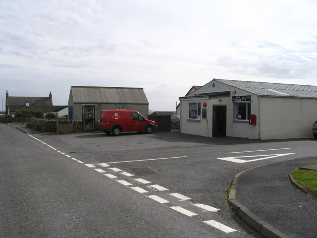 Toab post office